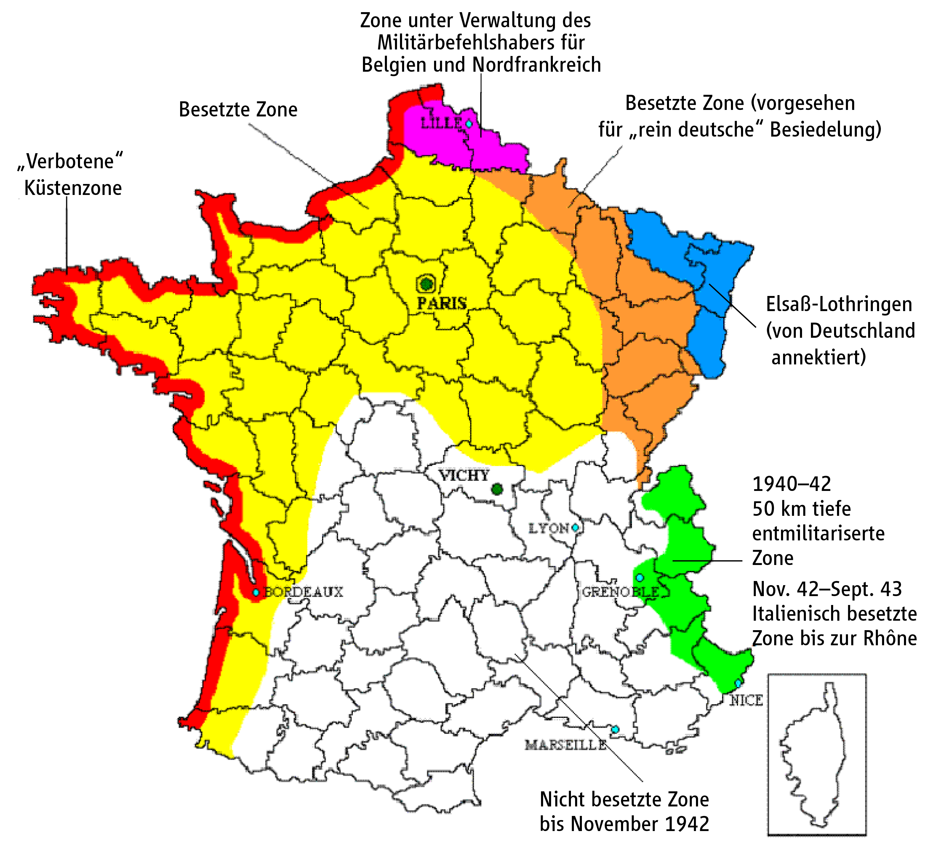 Map France under German occupation (1940-44)